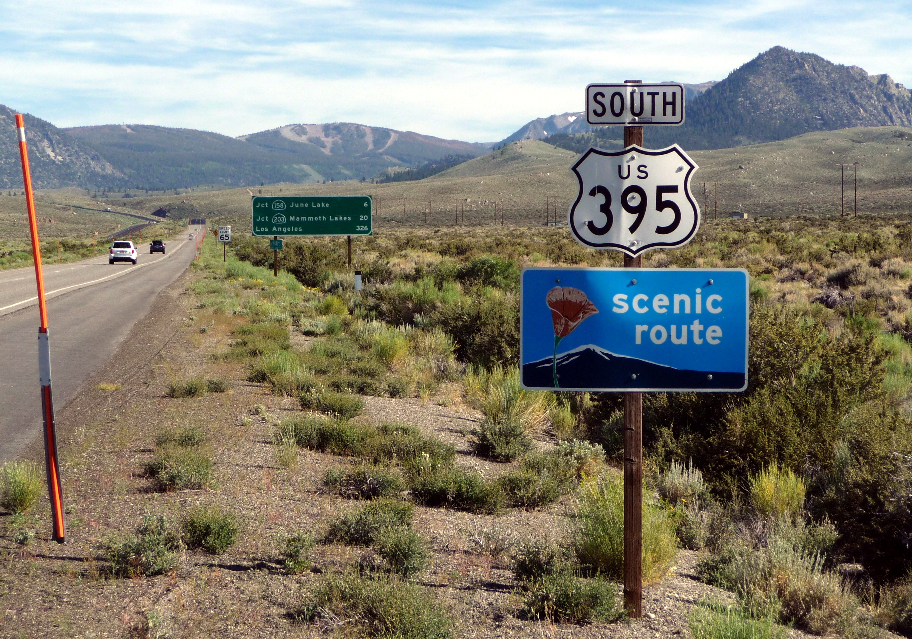 US 395 South sign near Mono Craters